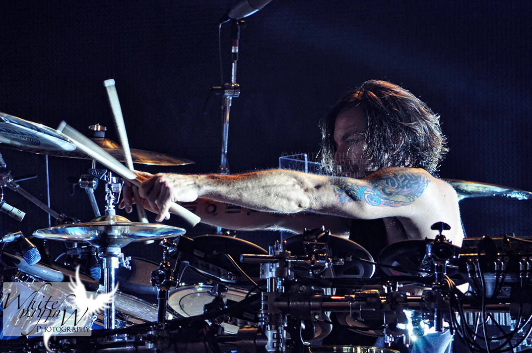 Shannon Leto performing in Lucca, Italy on July 13, 2013